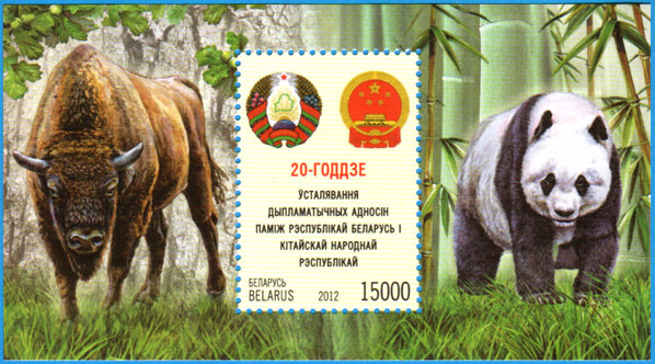 Stamp of Belarus